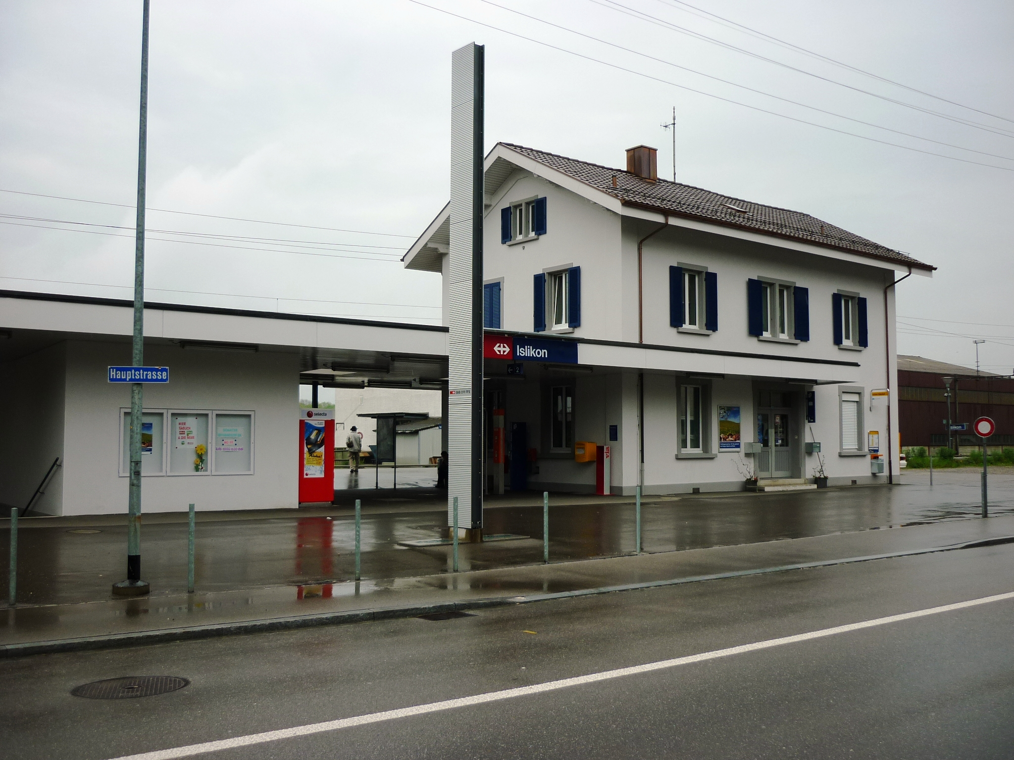 Islikon TG, Switzerland